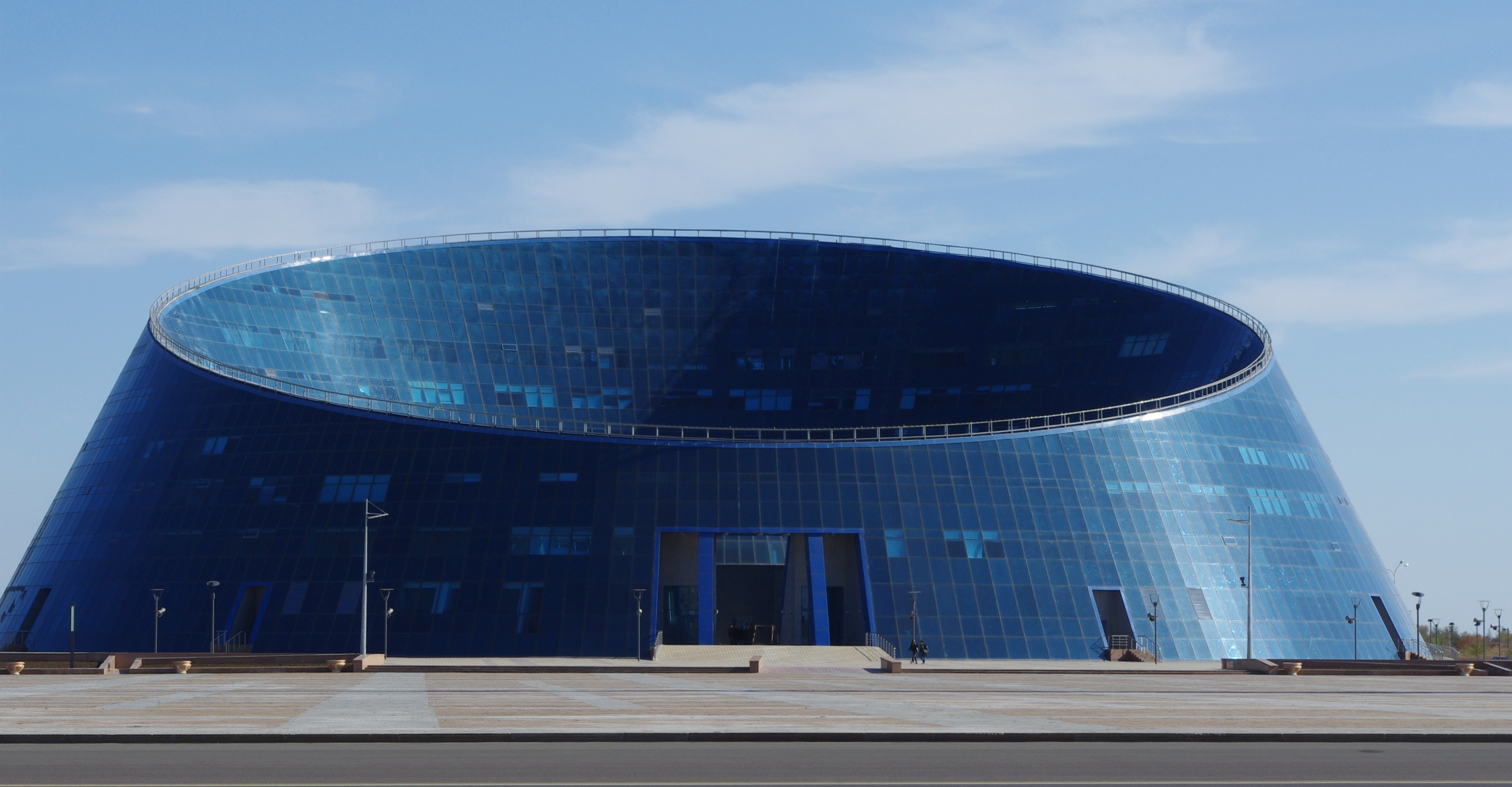 Palace of Arts "Shabyt" is located on the right bank of the Esil in a new civic centre of Nur-Sultan (Kazakhstan) near Congress-Hall.